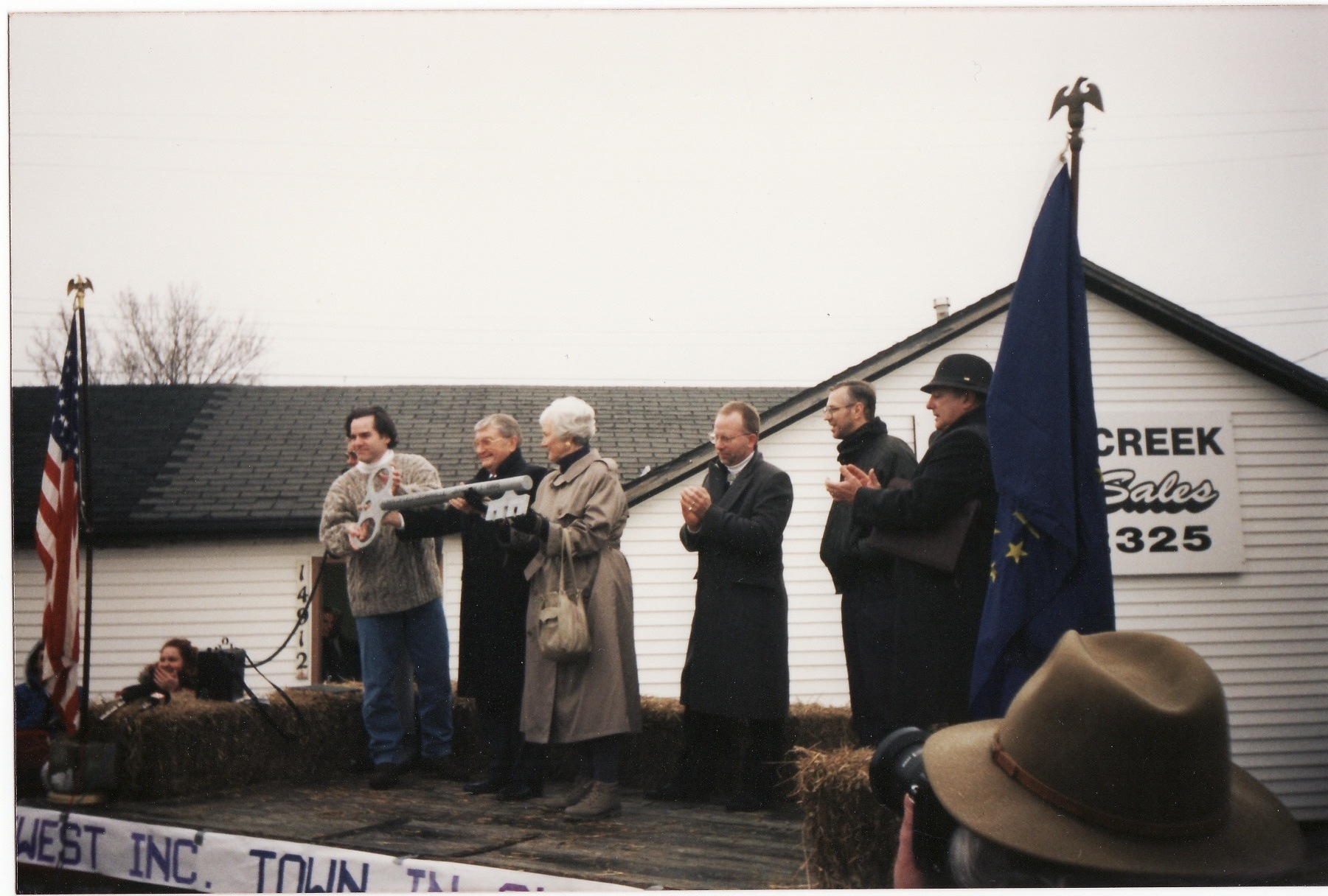 Town and county officials gathered for the incorporation ceremonies of Leo-Cedarville. The town incorporated on 1 January 1996.